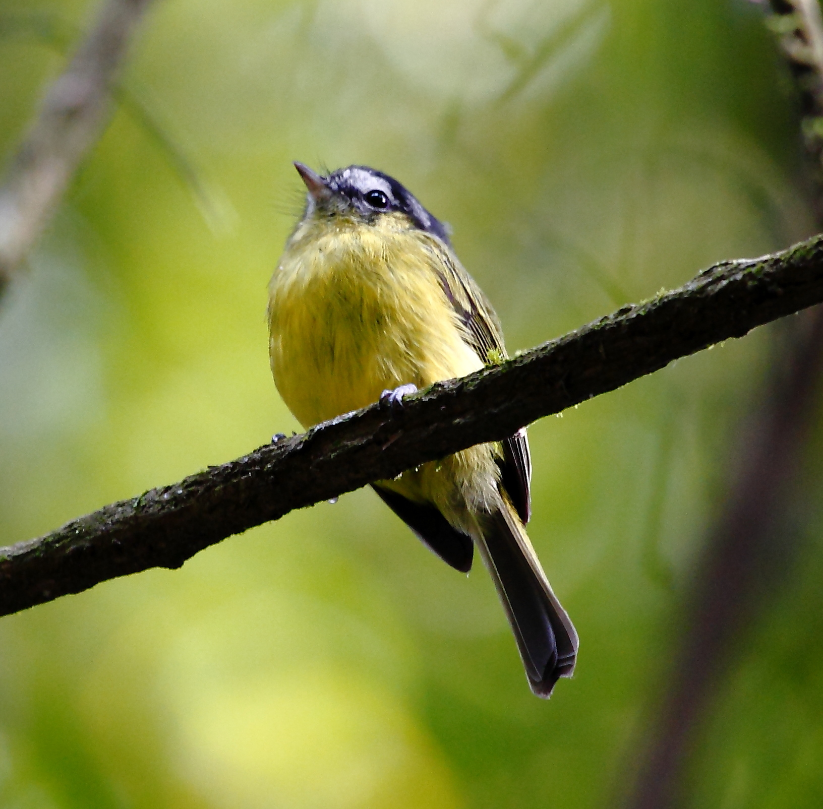 Southern Bristle-tyrant at Serra da Cantareira state park - São Paulo -Brasil